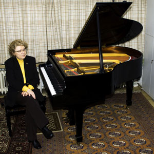 Gabriela Moyseowicz - composer and pianist in front of her piano